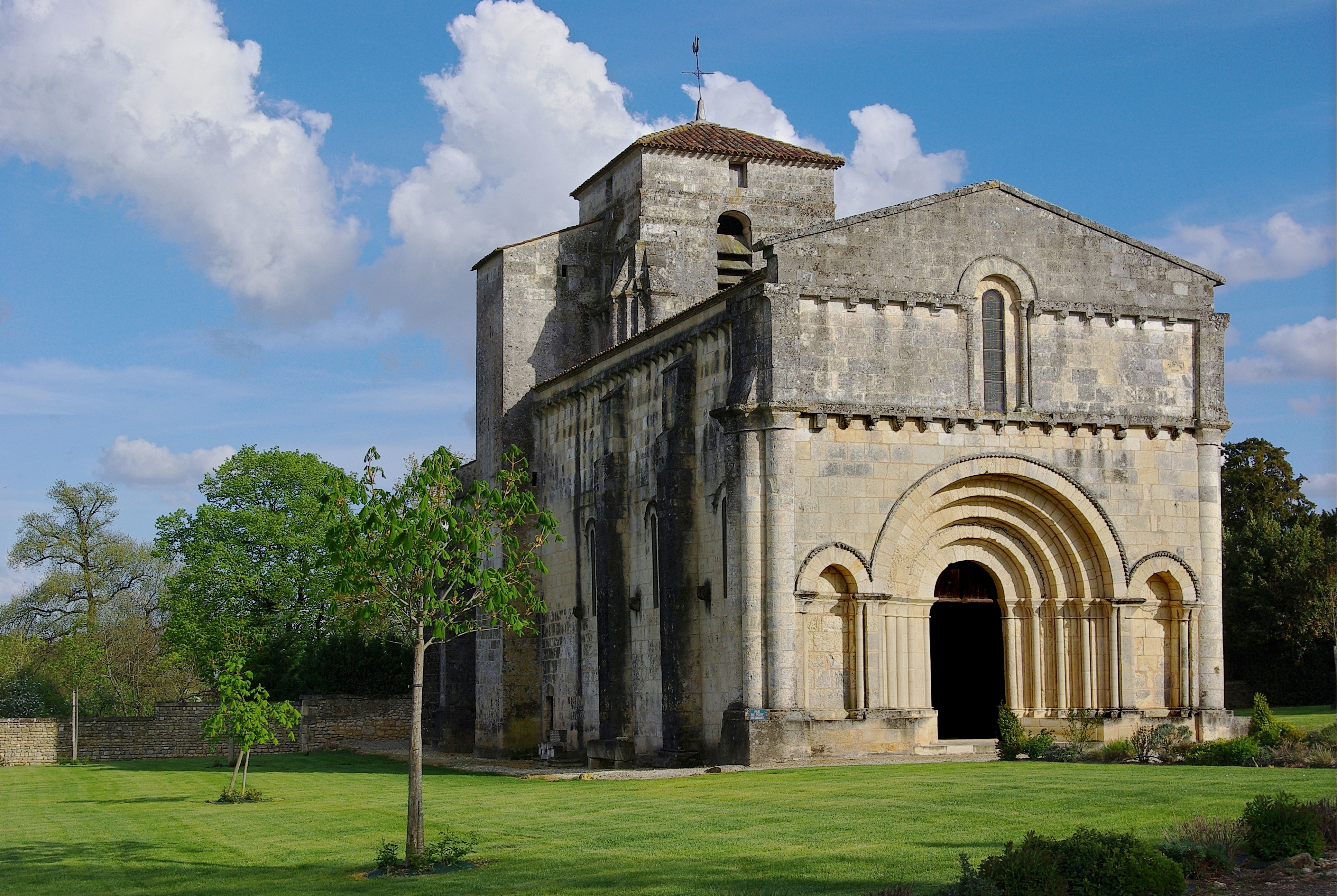 Exterior view of Church of Villars-en-Pons (XIIth and XVth centuries) , Charente-Maritime, France. .